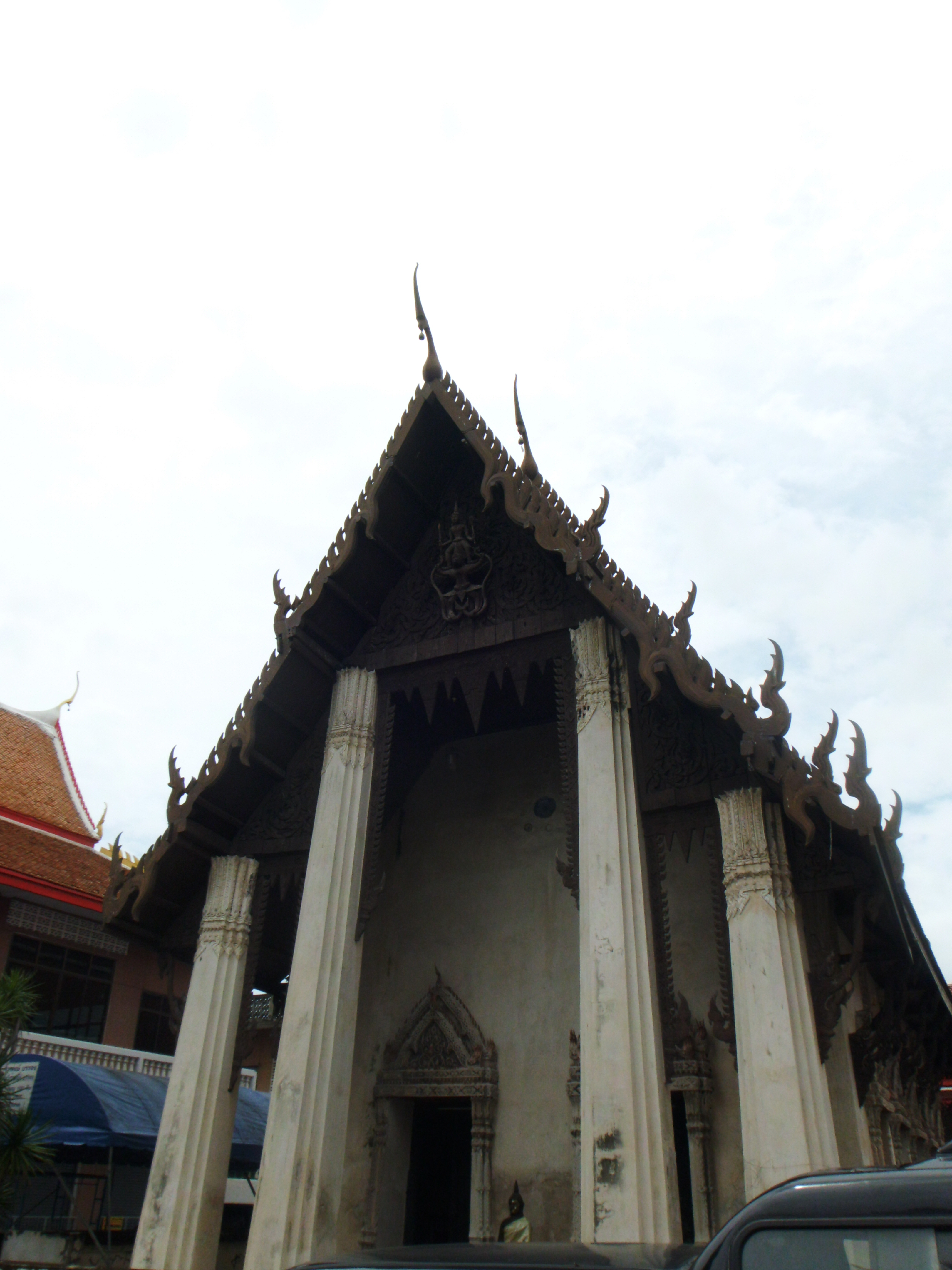 วัดป่าเกด